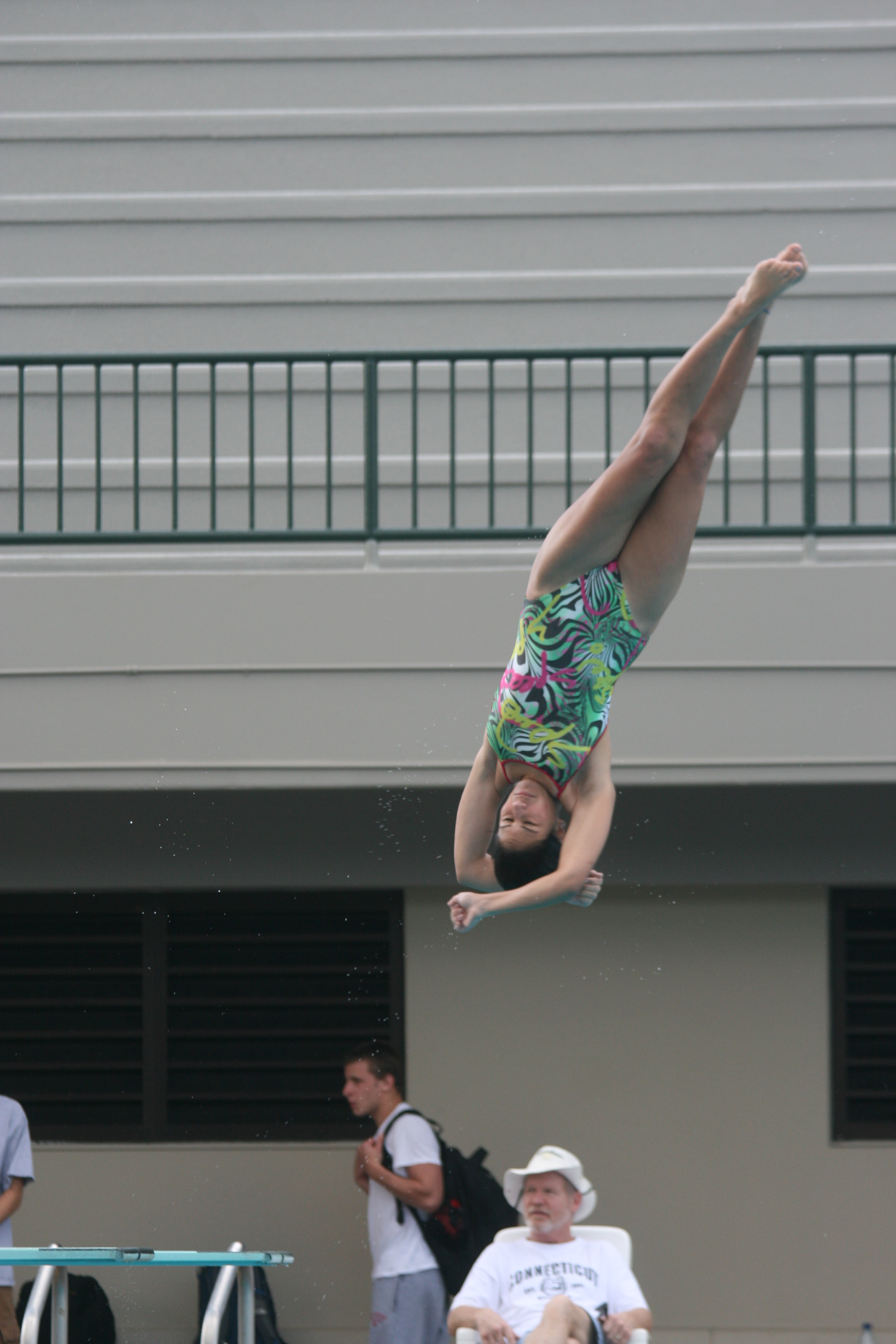 A diver performing a twister dive on a 3 meter springboard